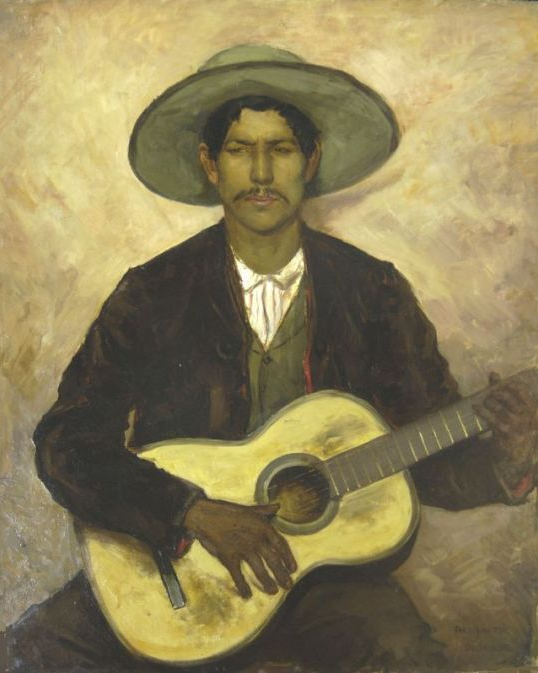 Don Pipo, guitariste de Grenade, oil on canvas, dim.: ?, musée de Narbonne.